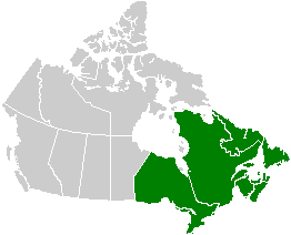 Map: Eastern Canada (political); based on Image:Canada provinces blank vide.png